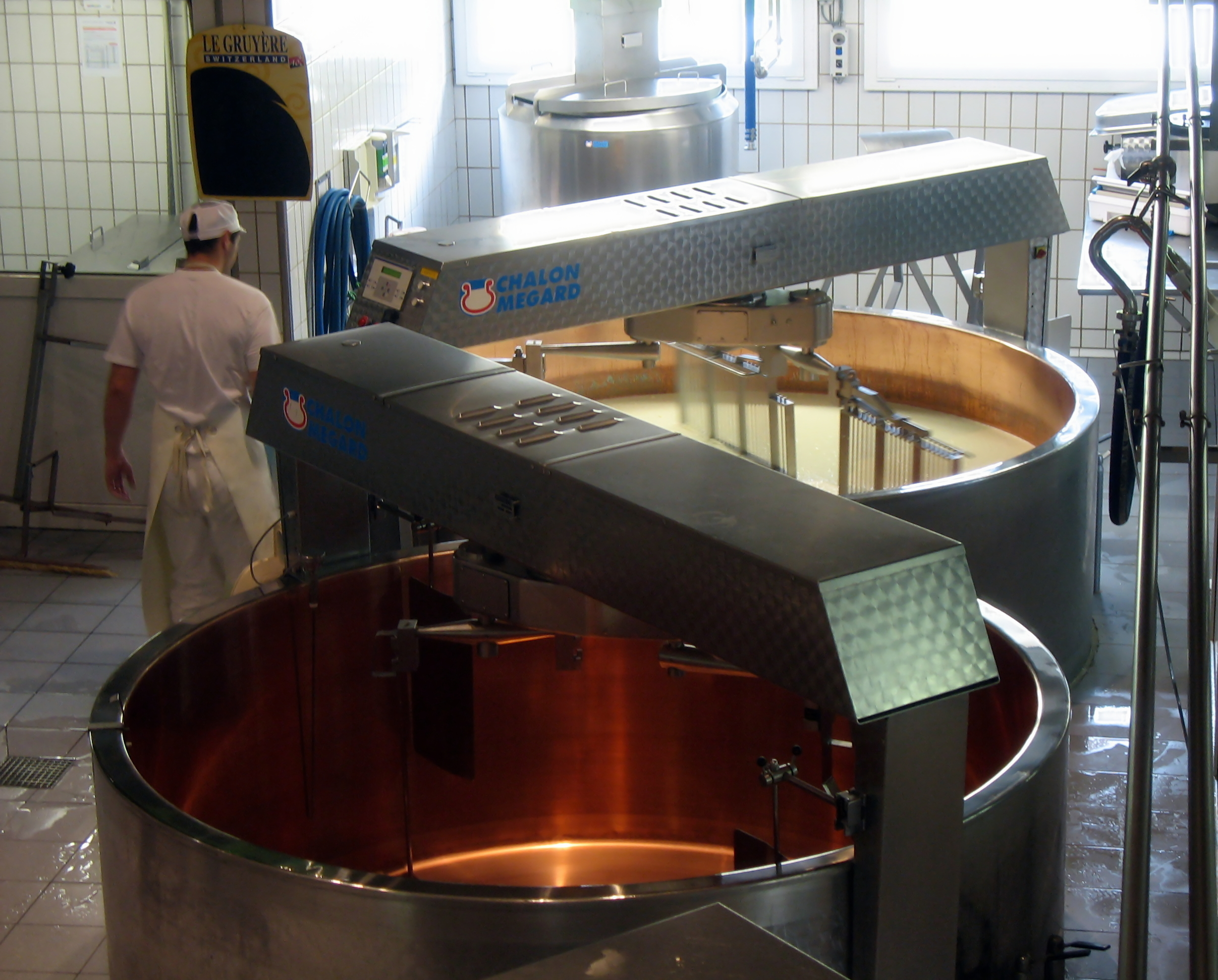 Production of Gruyère cheese at the cheesemaking factorie of Gruyères , Switzerland, Canton of Fribourg. This image was improved or created by the Wikigraphists of the Graphic Lab (fr). You can propose images to clean up, improve, create or translate as well.